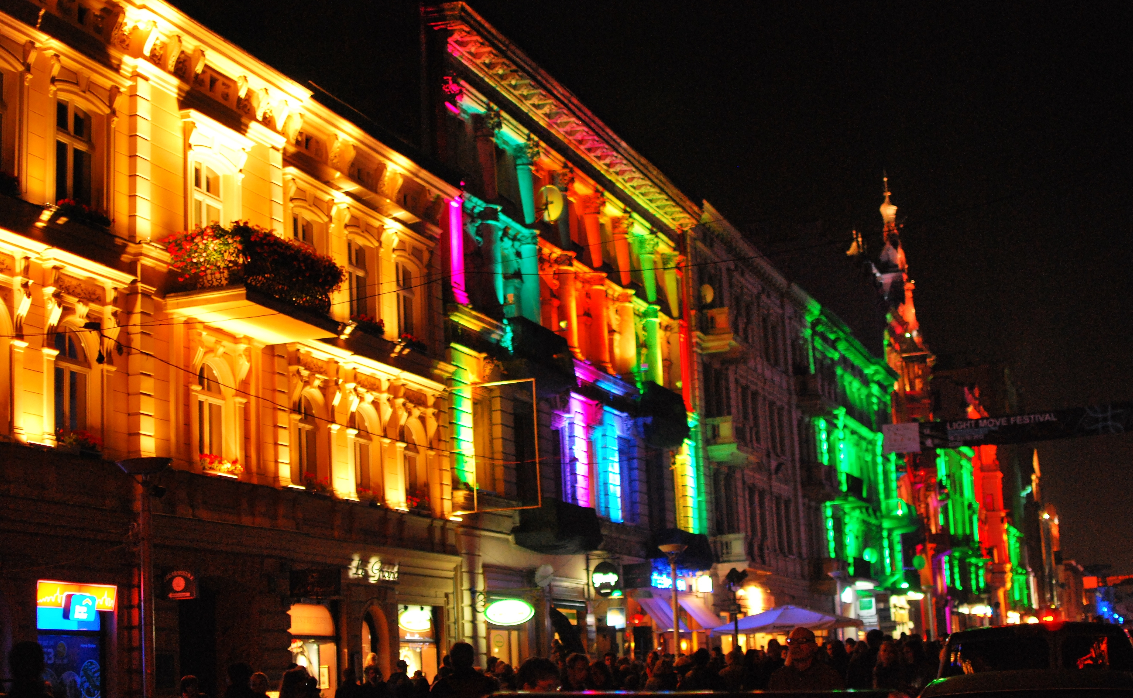 Light Move Festival Łódź 2012, Łódź Piotrkowska Street